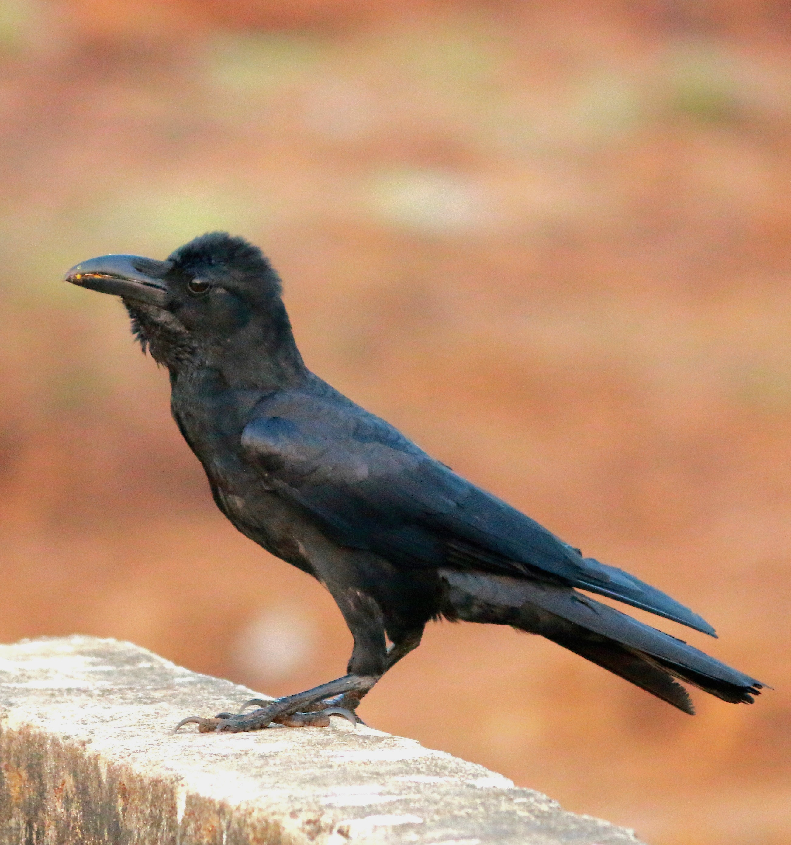 Large billed crow or jungle crow